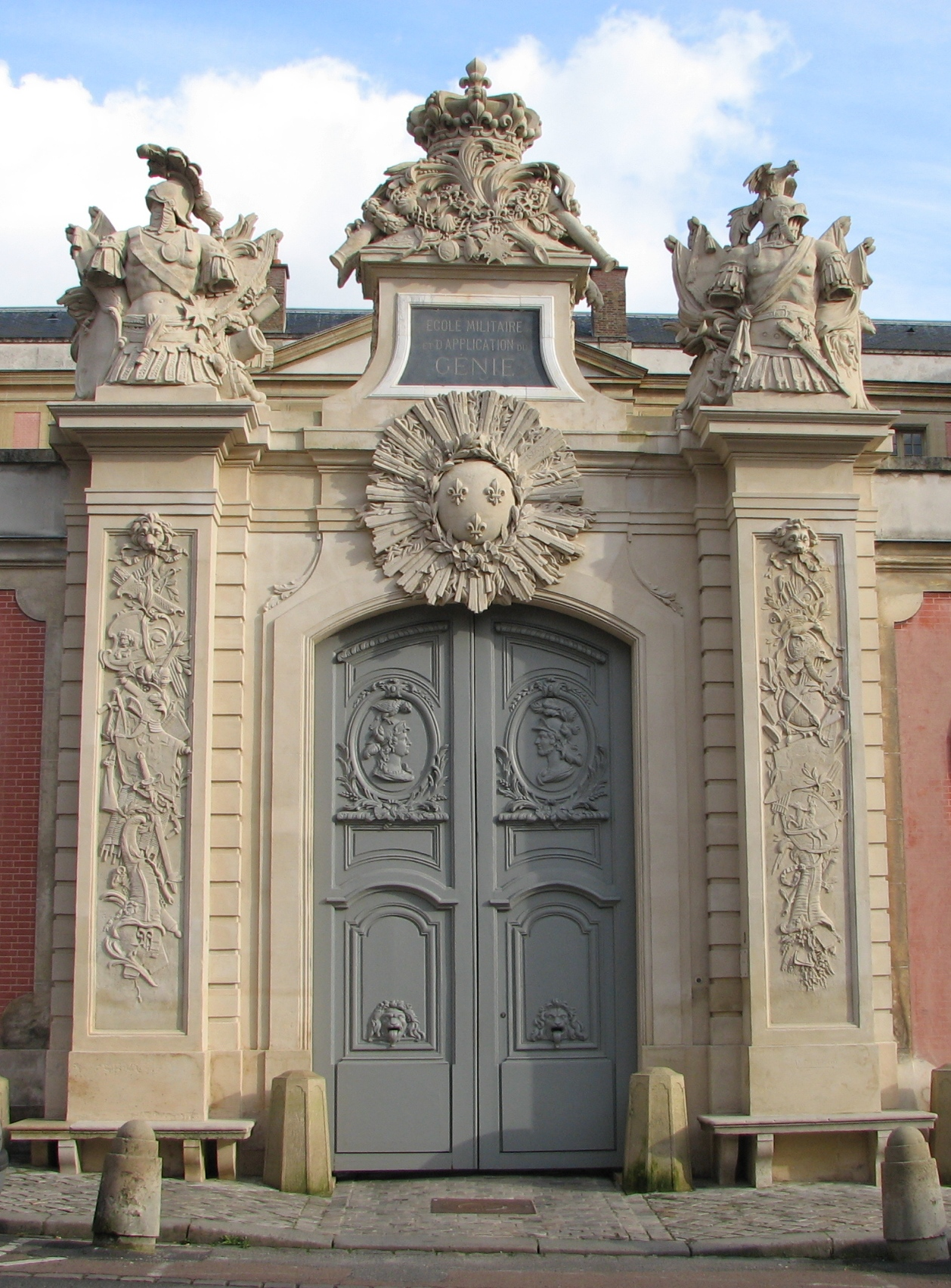 Entrance gate of the hôtel de la Guerre (former royal war building) in Versailles (France)